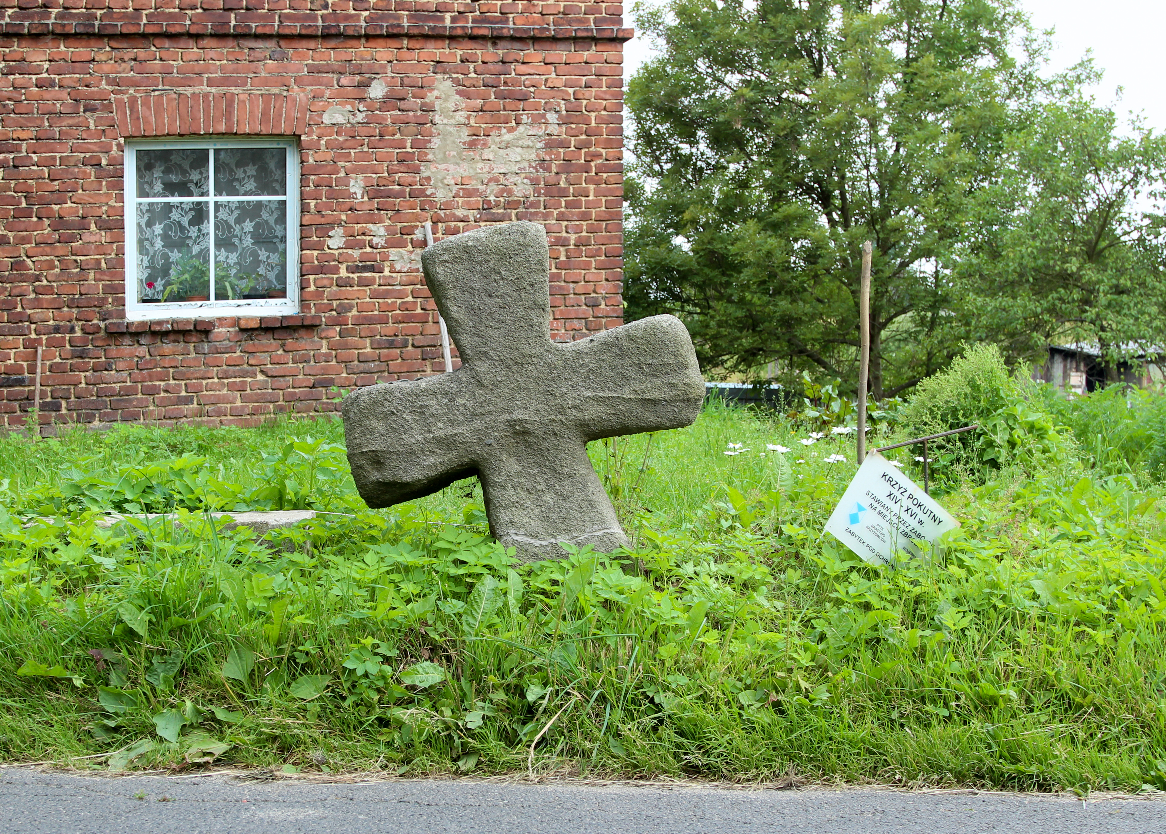 Stone cross in Wojciechów